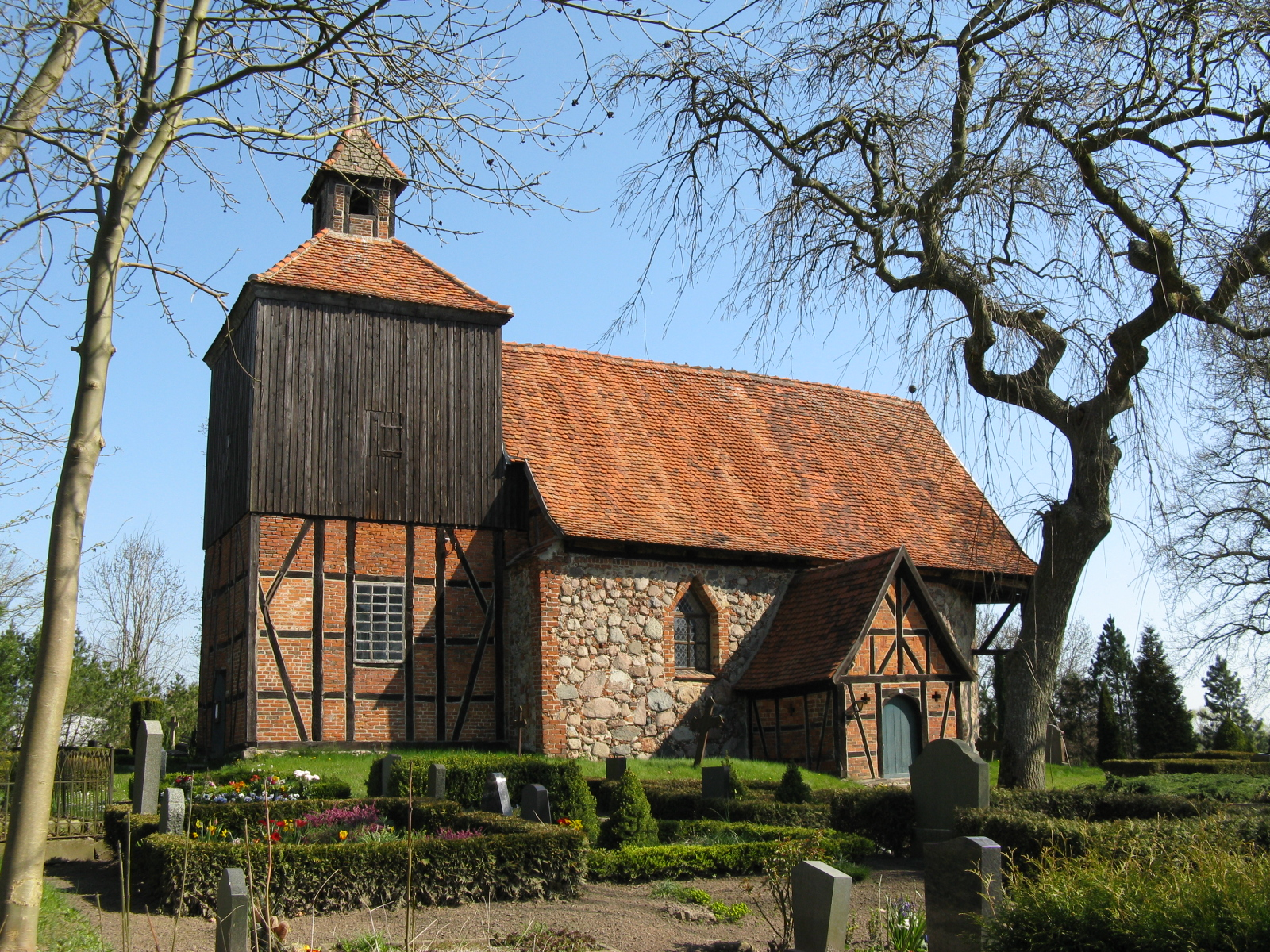 Church in Karbow, disctrict Parchim, Mecklenburg-Vorpommern, Germany